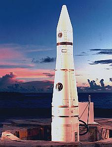 Exoatmospheric Reentry-vehicle Interception System (ERIS) Antimissile Rocket